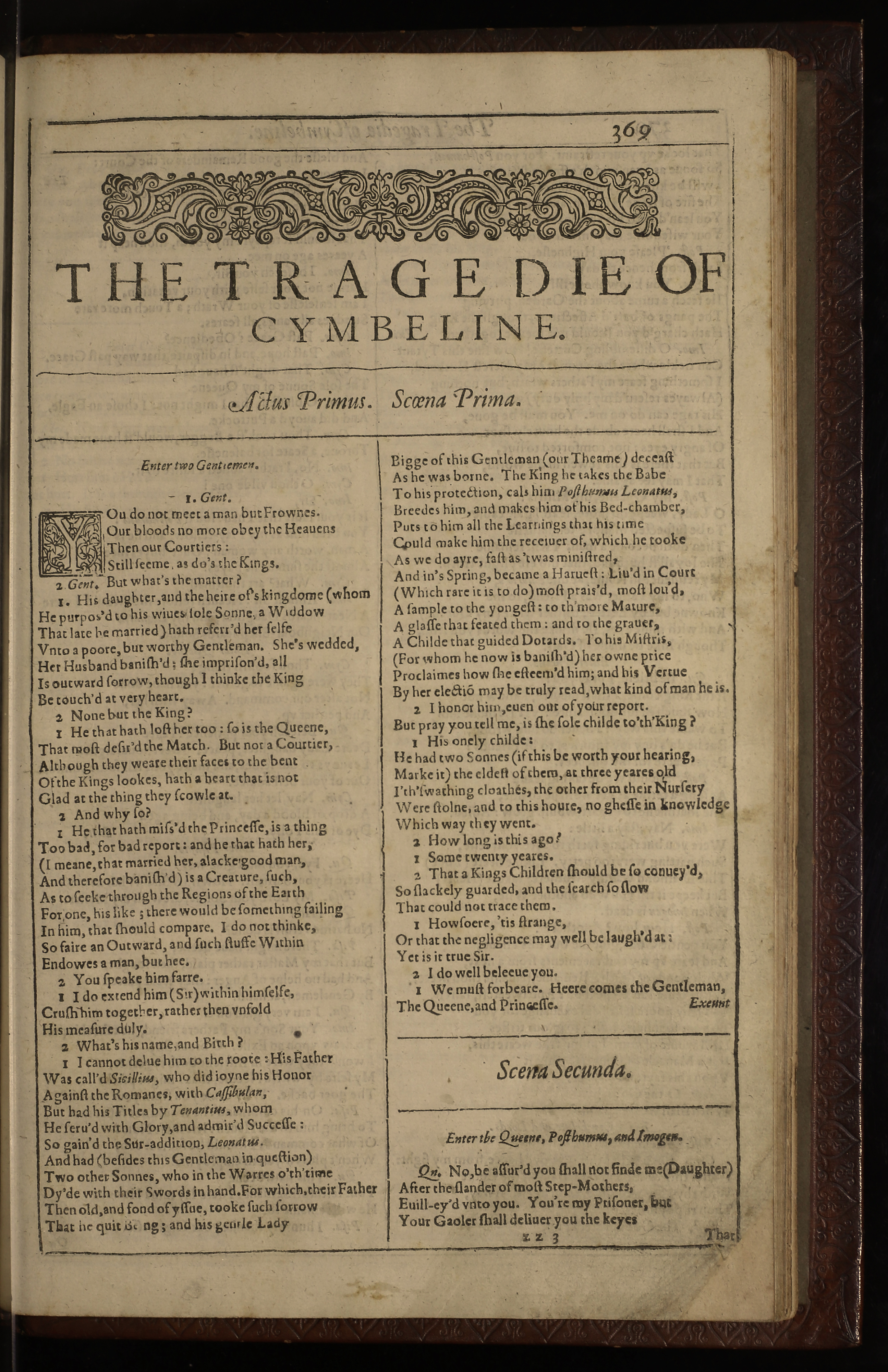 Written by William Shakespeare, published in 1623. View all four folios at